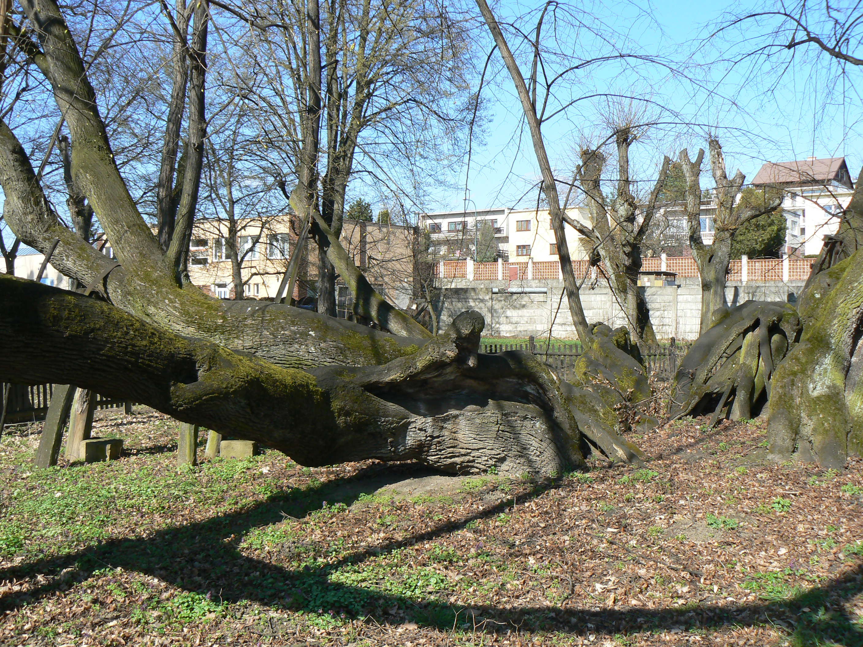 Lime tree in Bzenec, Hodonín District, Czech Republic